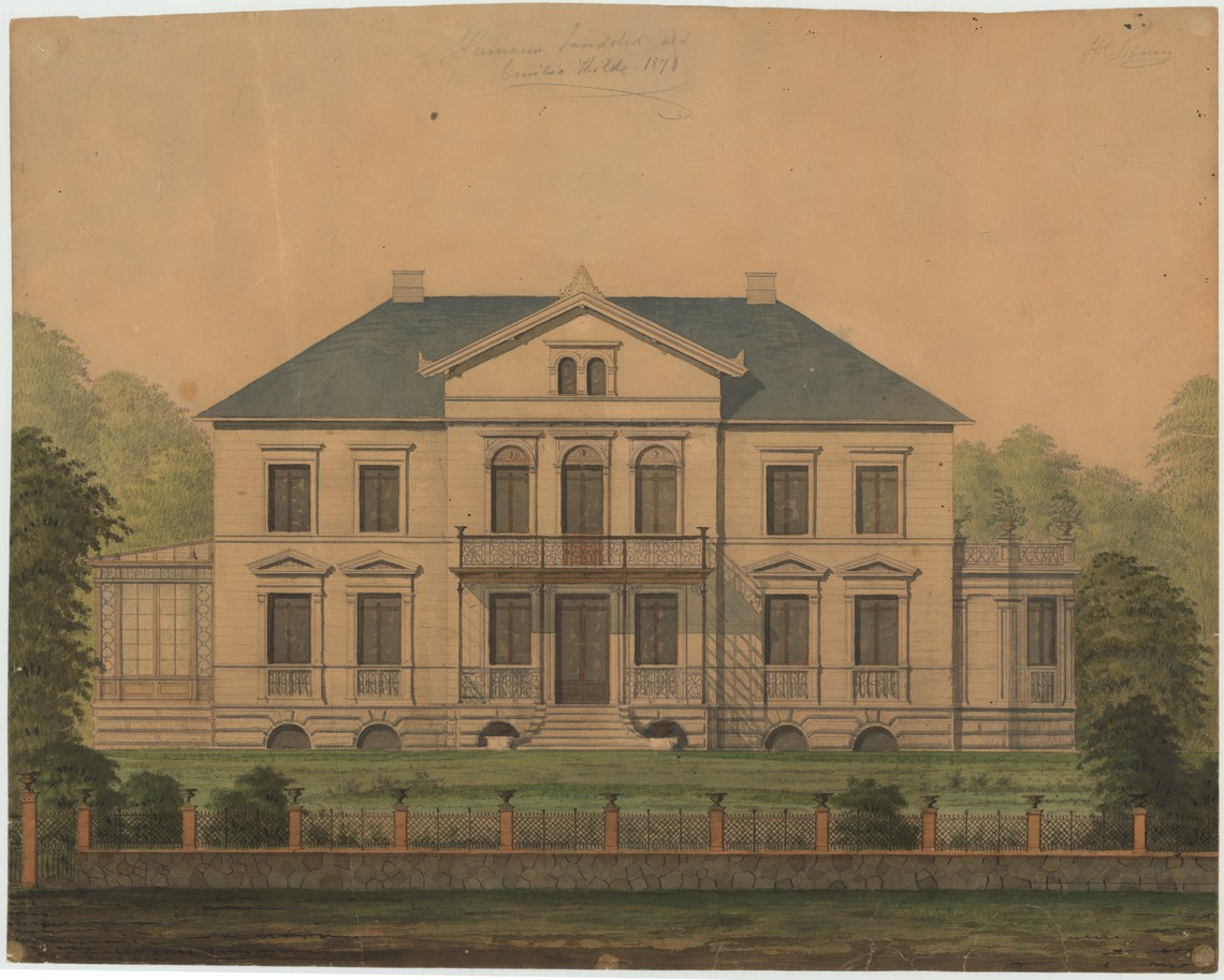 Drawing of Belvedere in Klampenborg made by Henrik Steffens Sibbern in connection of his refurbishment of the property.